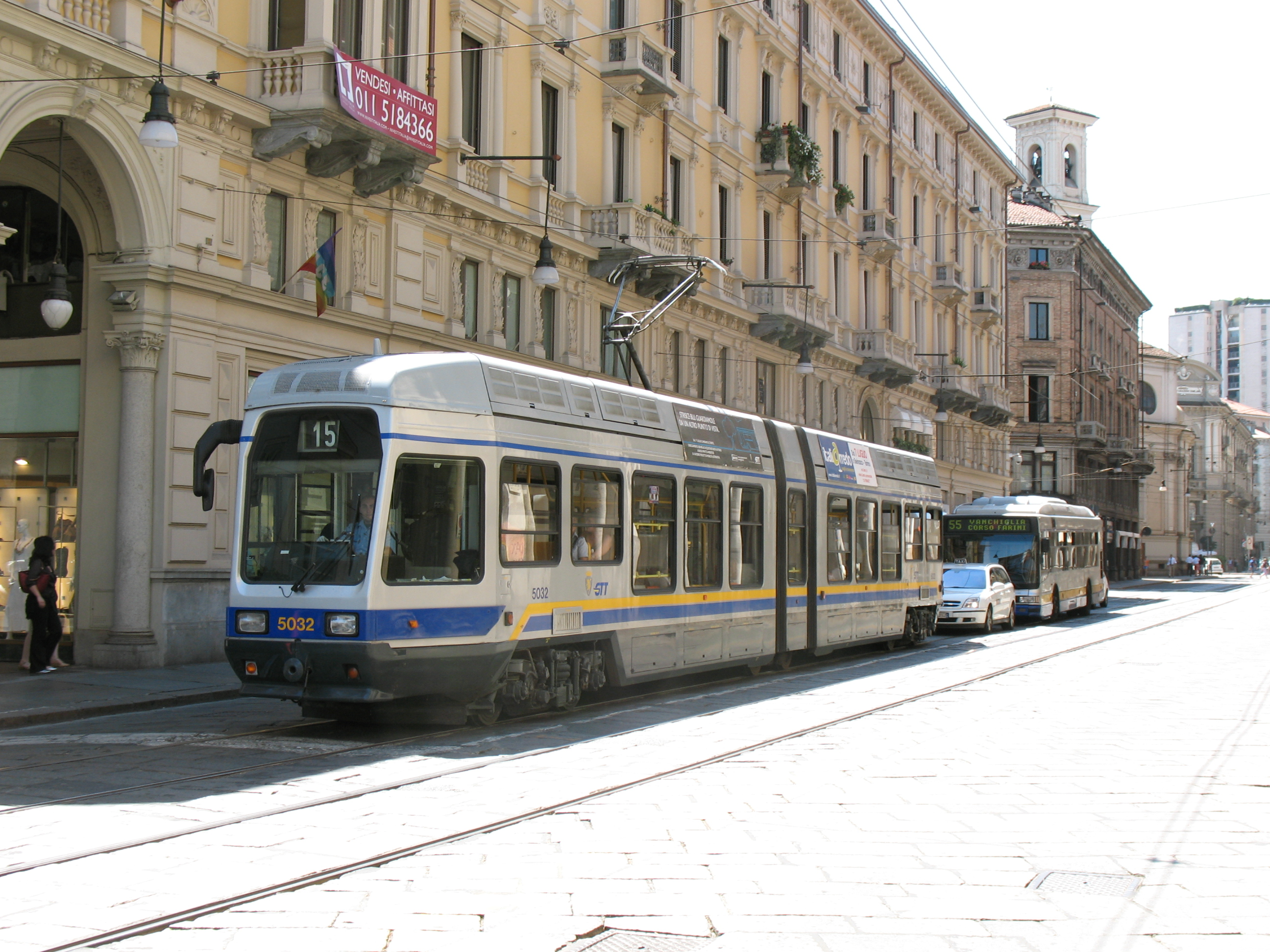 Torino, Italy, 6.7.2007. Canon Powershot A 630